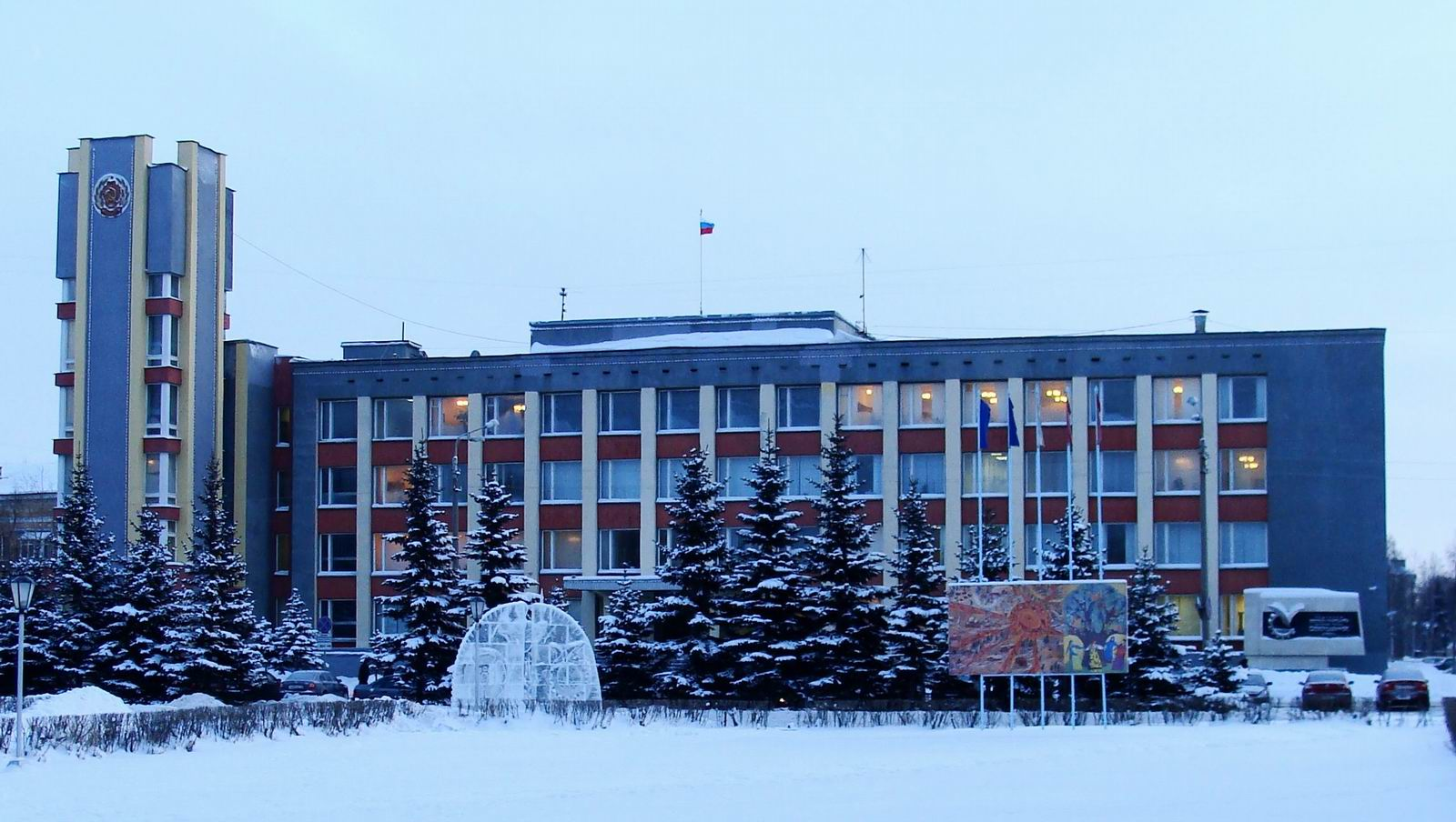 Severodvinsk